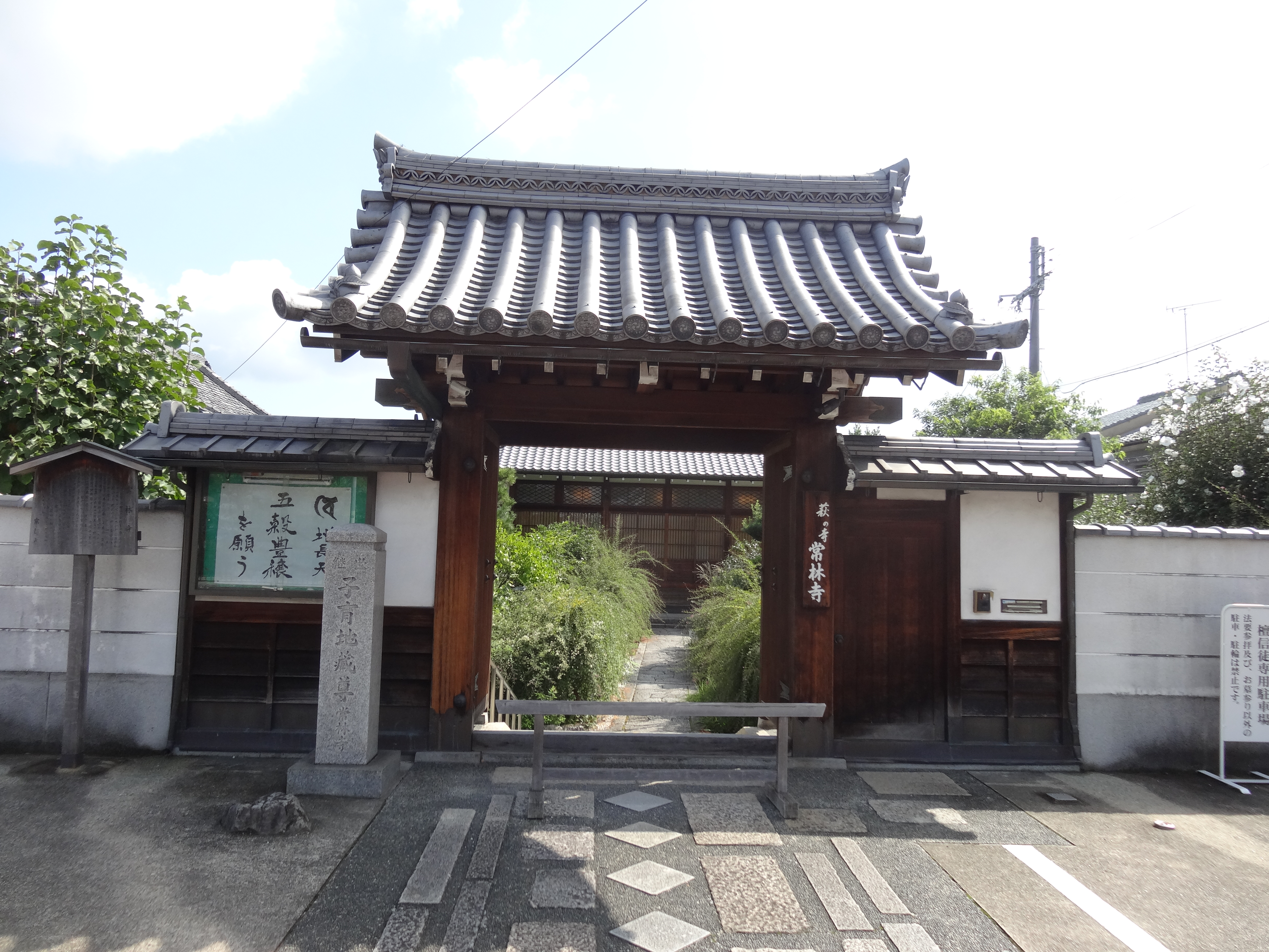 常林寺 山門